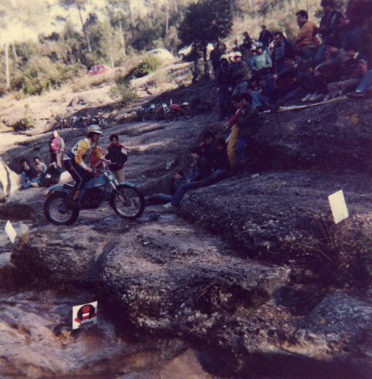 Bernie Schreiber with his Bultaco Sherpa T at XIII "Trial de Sant Llorenç" in Matadepera (Catalonia) on March 11, 1979. It was the 5th race of the Trial World Championship. He won the race.This was the section #20, called "Zona de l'Aureli", near the spring of Carlets (Rellinars).